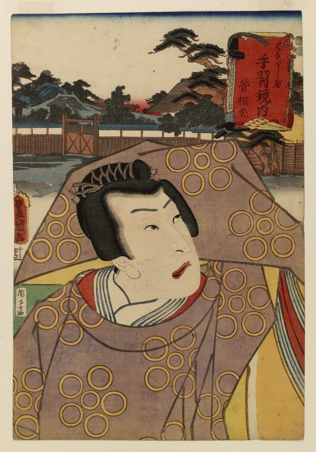 The actor Suketakaya Takasuke III in the role of Kan Shōjō. Following the abdication of a 9th-century emperor, the poet and great calligrapher Sugawara Michizane must share the regency with his enemy Fujiwara Shihei. Through Shihei's intrigues, he is exiled to Kyushu.